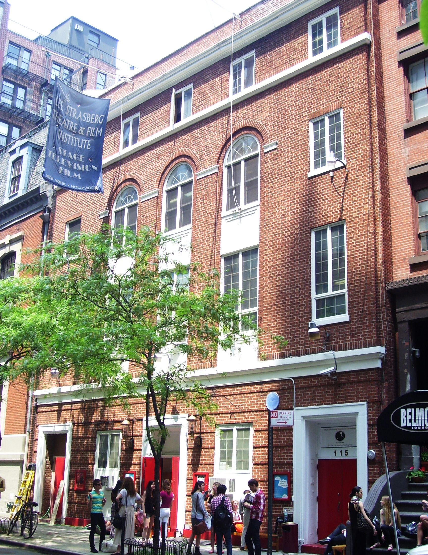 The Lee Strasberg Theatre and Film Institute at 115 East 15th Street between Union Square East and Irving Place in the Union Square neighborhood of Manhattan, New York City was founded by the noted acting teacher in 1969. The building dates from c.1930 (Sources: NYC GIS map and LSTFI website)